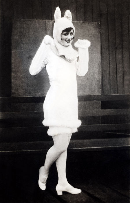 A photograph of Irene Dunne, in a rabbit costume, for an unknown Broadway stage show in the 1920s.